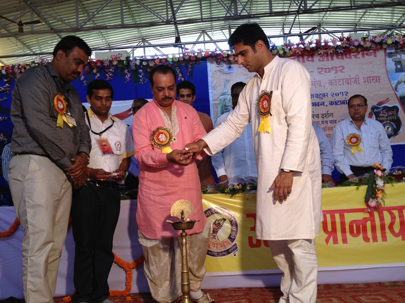 UPMYM Convention in Kantabanji 2012